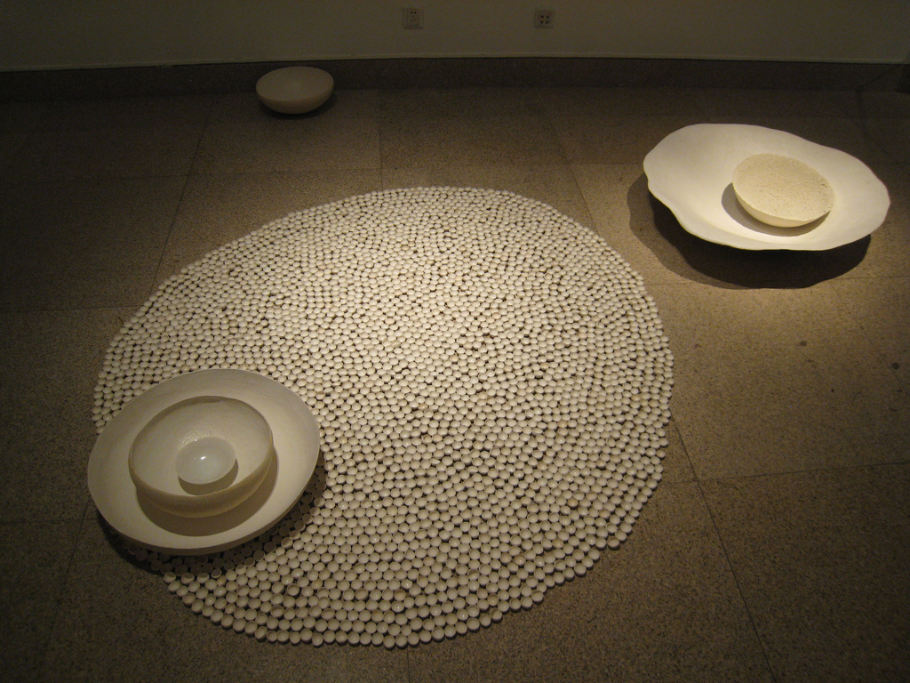 Art displays in the National Art Museum of China in Beijing